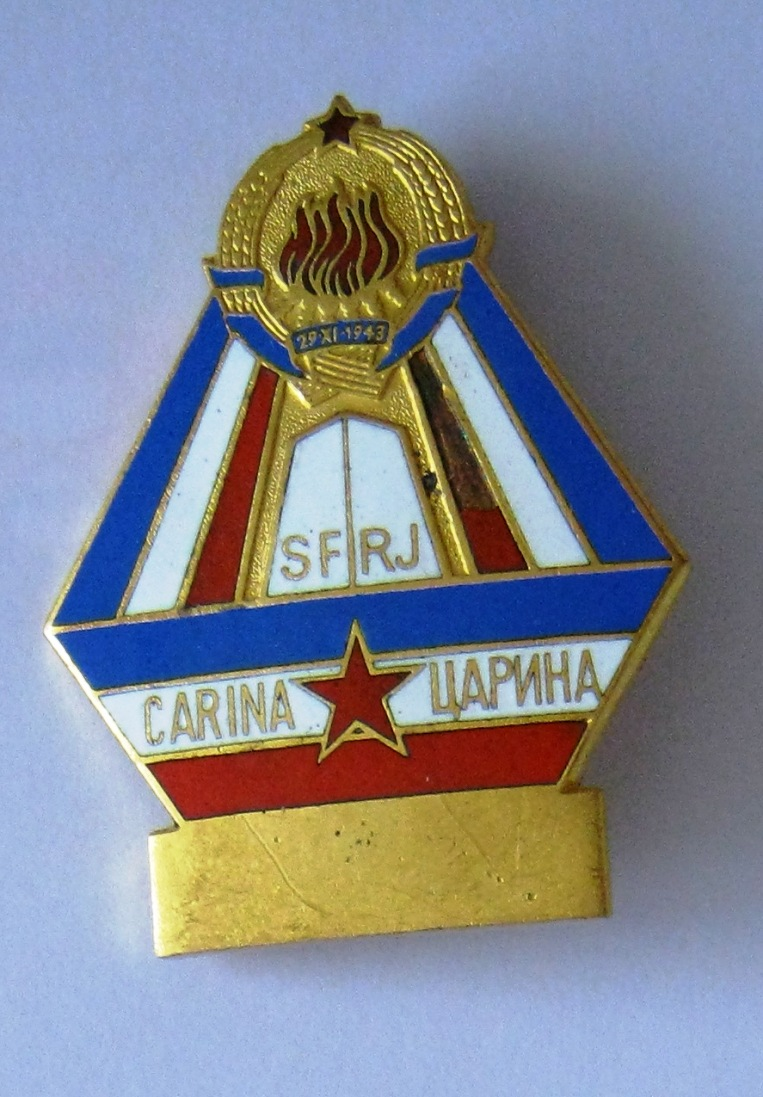 Unused Yugoslavian Customs Badge (before 1991). Lower part should have engraved Number Code when used by the Customs Officer.